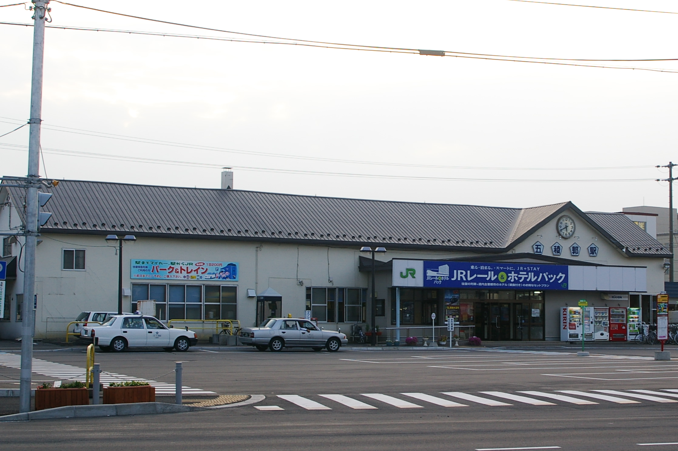 Photograph of Goryokaku Station of Hokkaido Railway Company (JR Hokkaido) in Hakodate, Hokkaido, Japan.